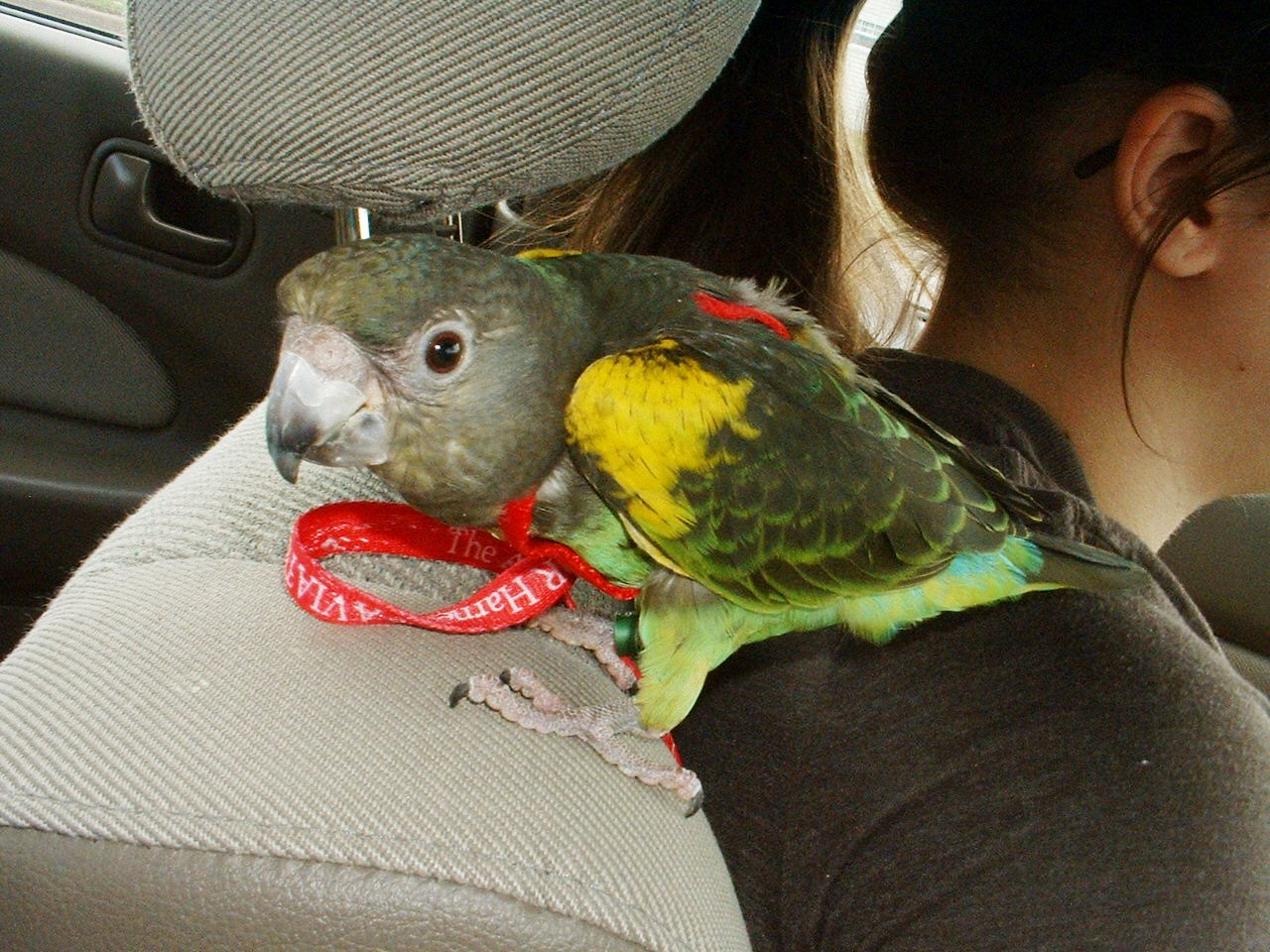 Meyer's Parrot "Tango" (Poicephalus meyeri) wearing an Aviator Harness in a car.